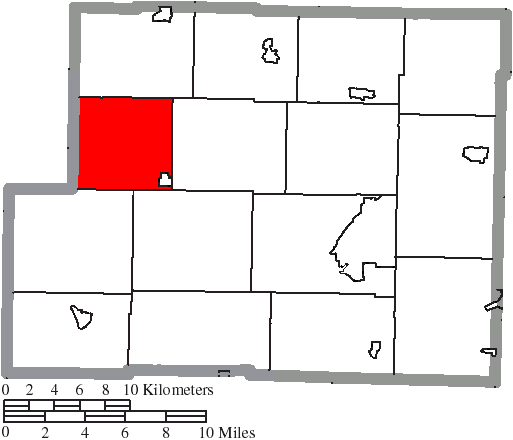 Map of the municipal and township boundaries of Harrison County, Ohio, United States, as of the 2000 census, with the location of Franklin Township highlighted. Township borders are shown only in unincorporated areas in order to differentiate incorporated and unincorporated areas more clearly.